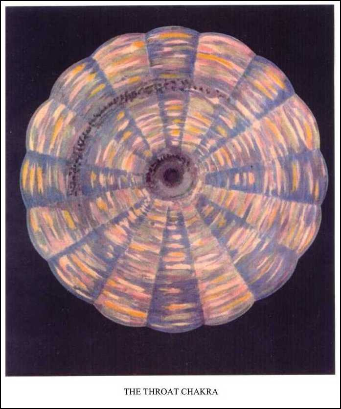 The throat chakra